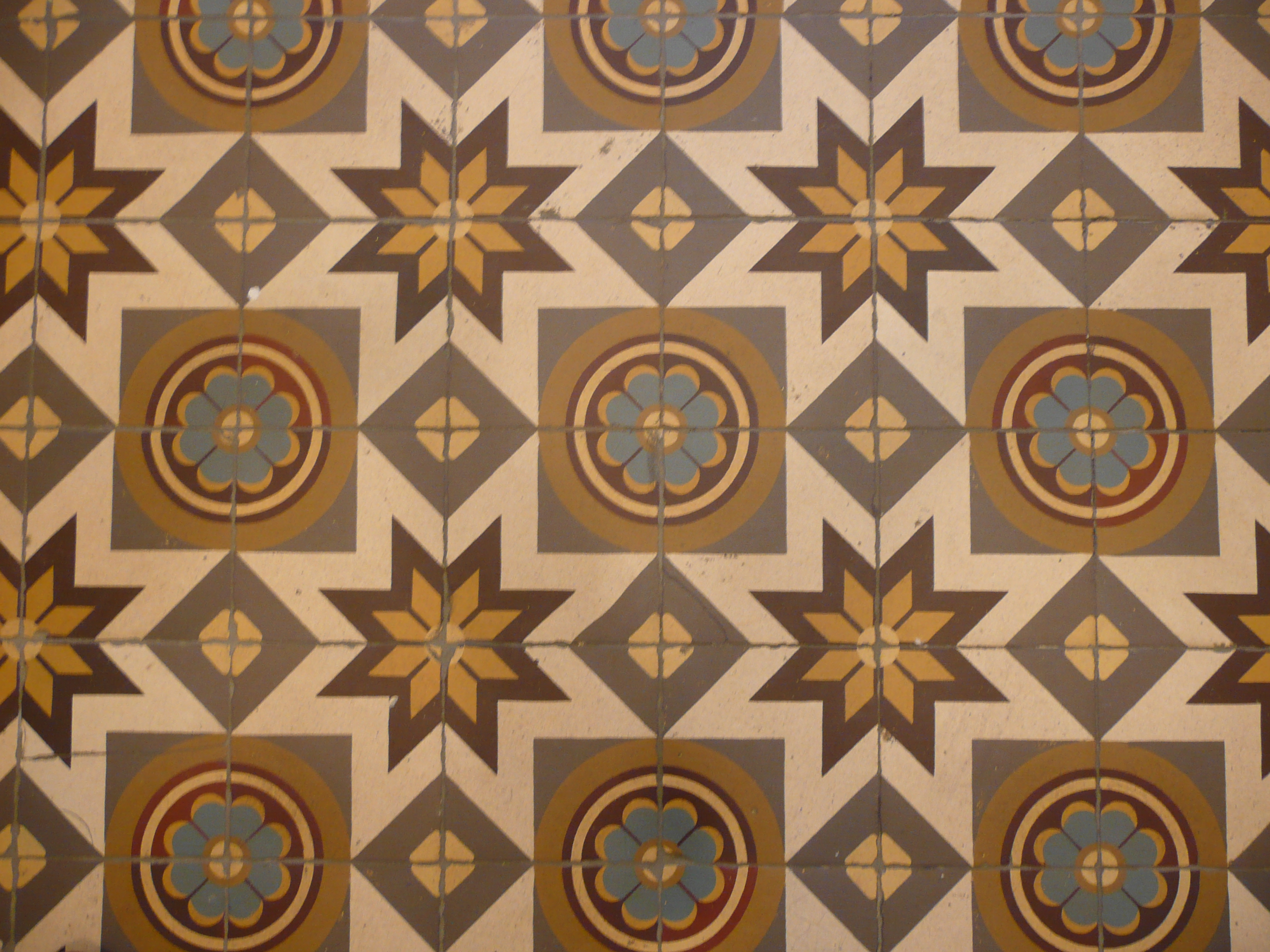 19th-century cement tiles, floor pavement, Germany